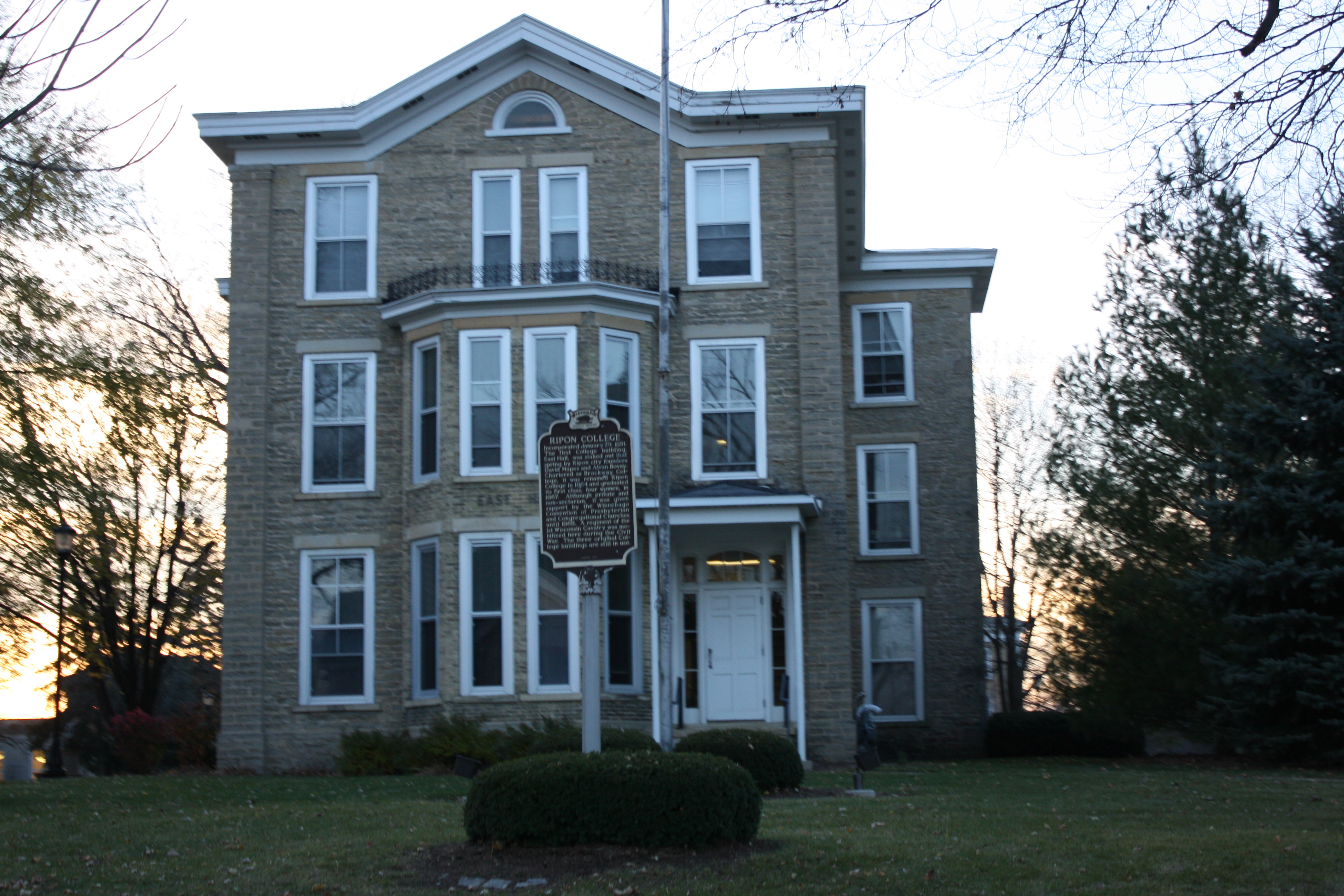 The East Hall, the first building at Ripon College. It is listed on the National Register of Historic Places as part of the Ripon College Historic District.